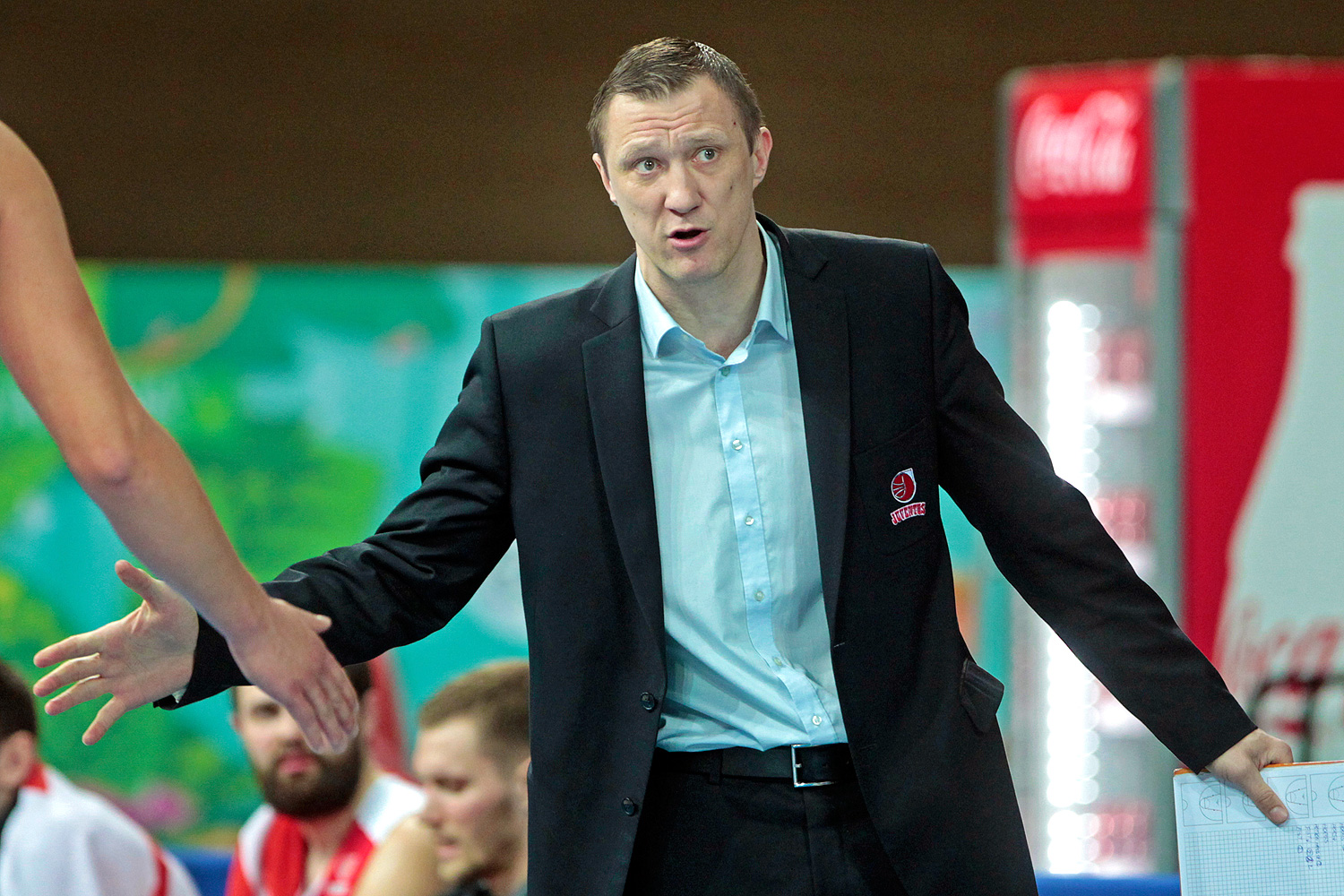 Basketball coach and manager Žydrūnas Urbonas